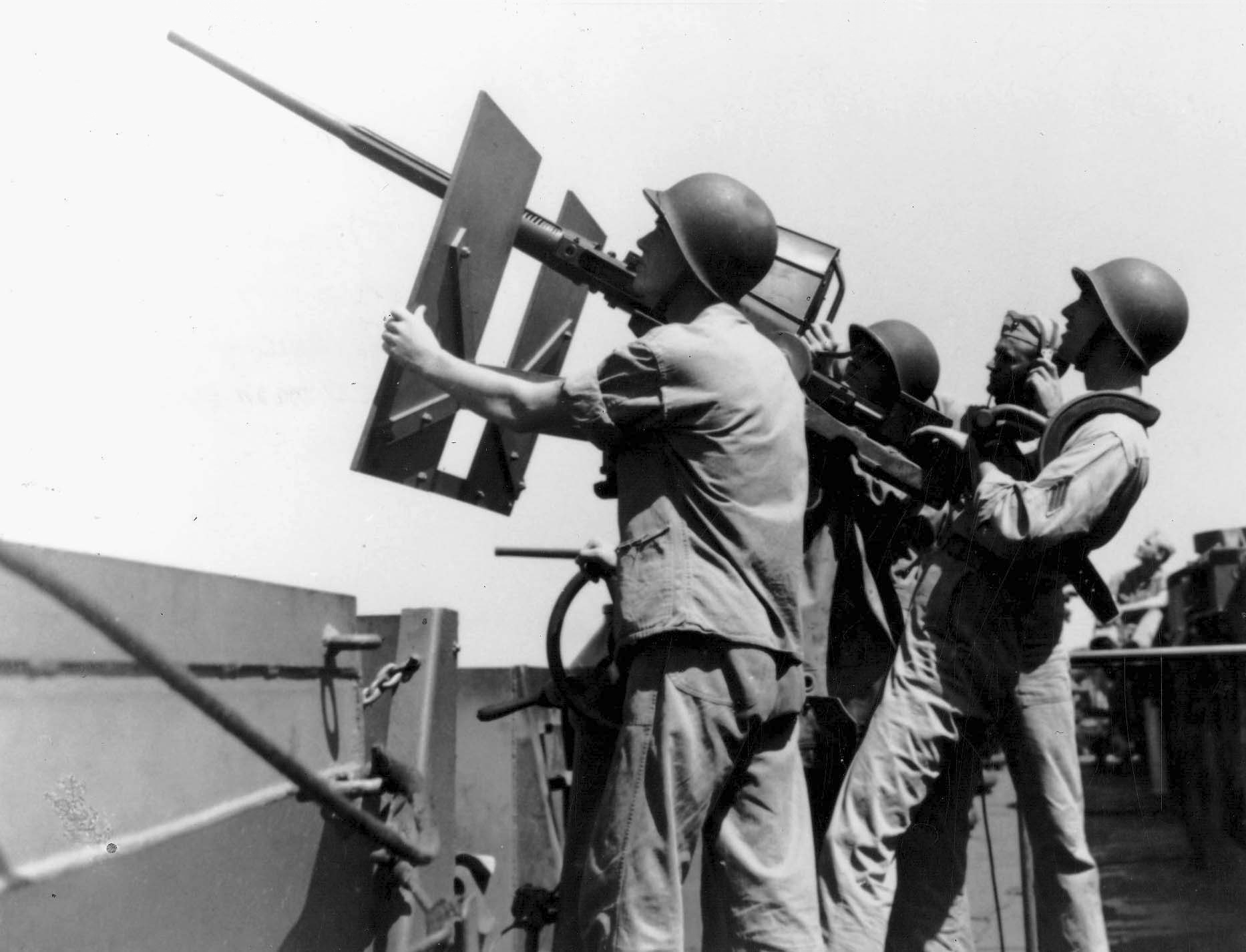 View of the members of the Marine Detachment aboard the U.S. Navy aircraft carrier USS Enterprise (CV-6) conducting battle practice with 20 mm guns in Battery 4 on board the carrier, 5 May 1943.